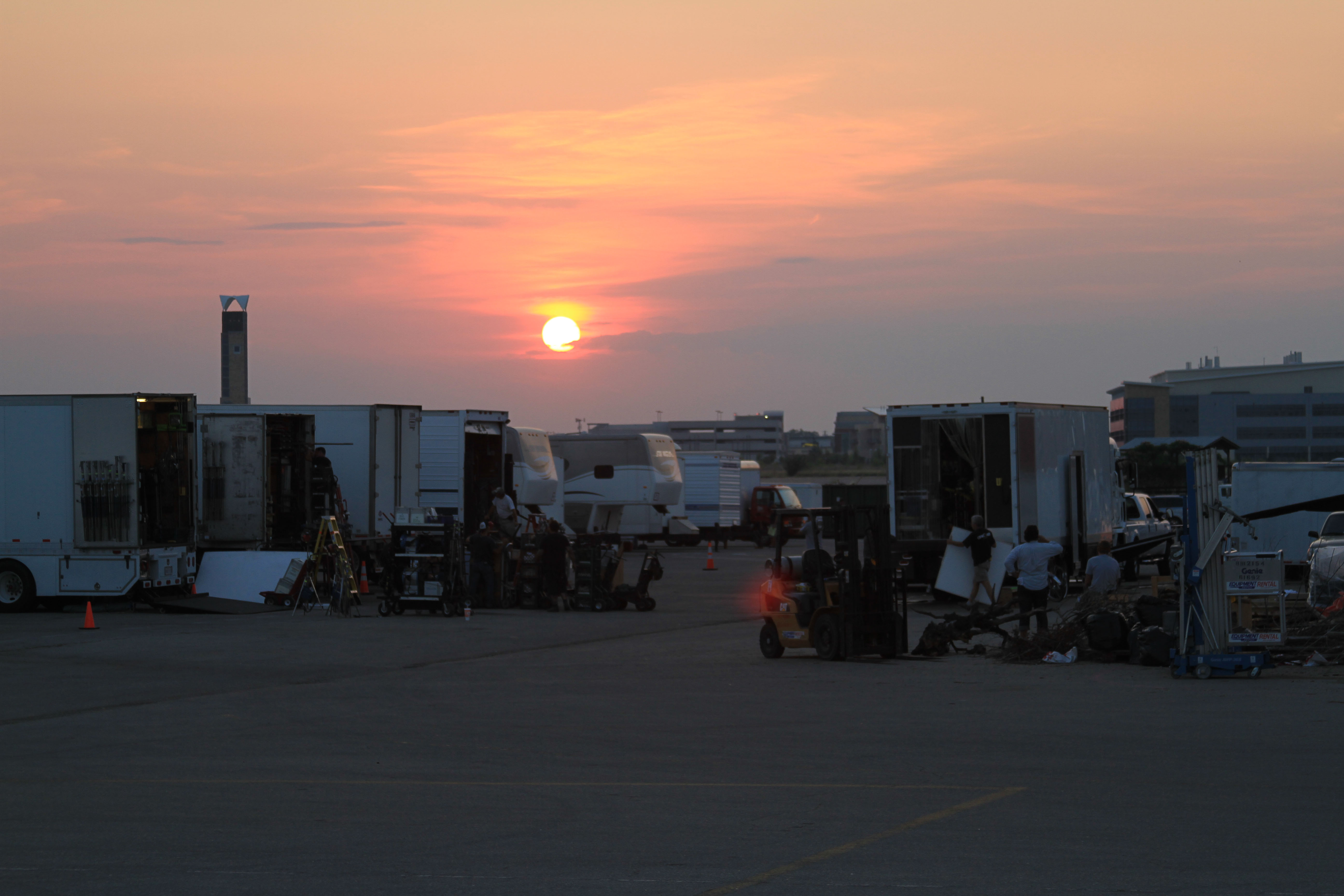 The backlot of Austin Studios at sunset.